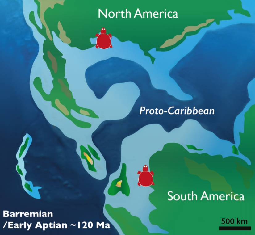 Paleogeography of northern South America - Barremian-Aptian - 120Ma